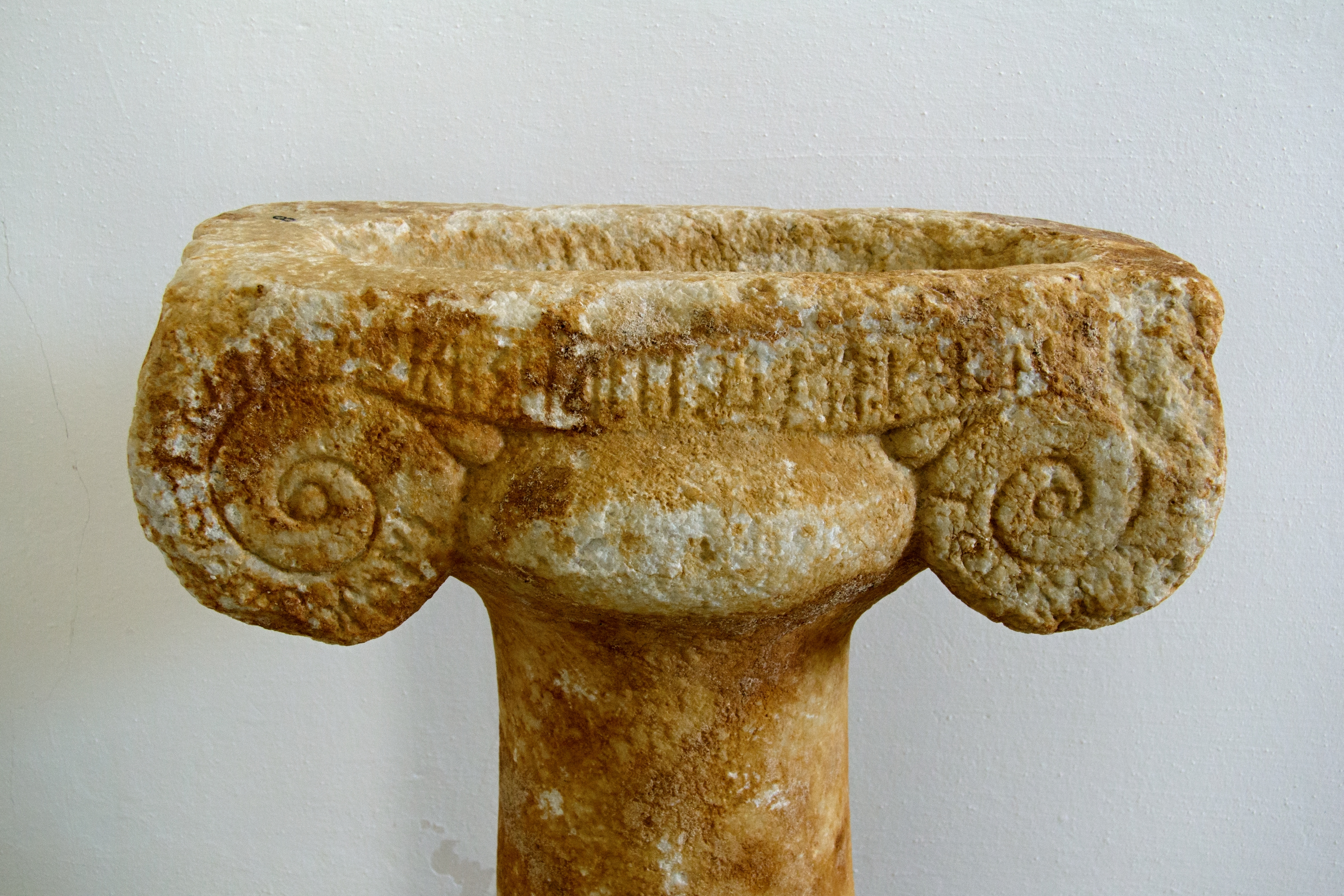 Hole for inserting the victims (offerings) - on top of the column. Not the abacus, ie the head of the column! Inscription from right to left, even in a spiral, the dedication to Apollo: Apollo Alexitidés ("turning away"). The object dates from the late 7th century BC, is 105 cm tall, was found in 1954 in Gyroulas near Sangri on Naxos. (Linked to the proto-Ionic capitals or not, when it's actually something else?) Archaeological Museum on Naxos, MN 8. (In the local museum of Demetrion at Gyroulas exhibit only copy.)